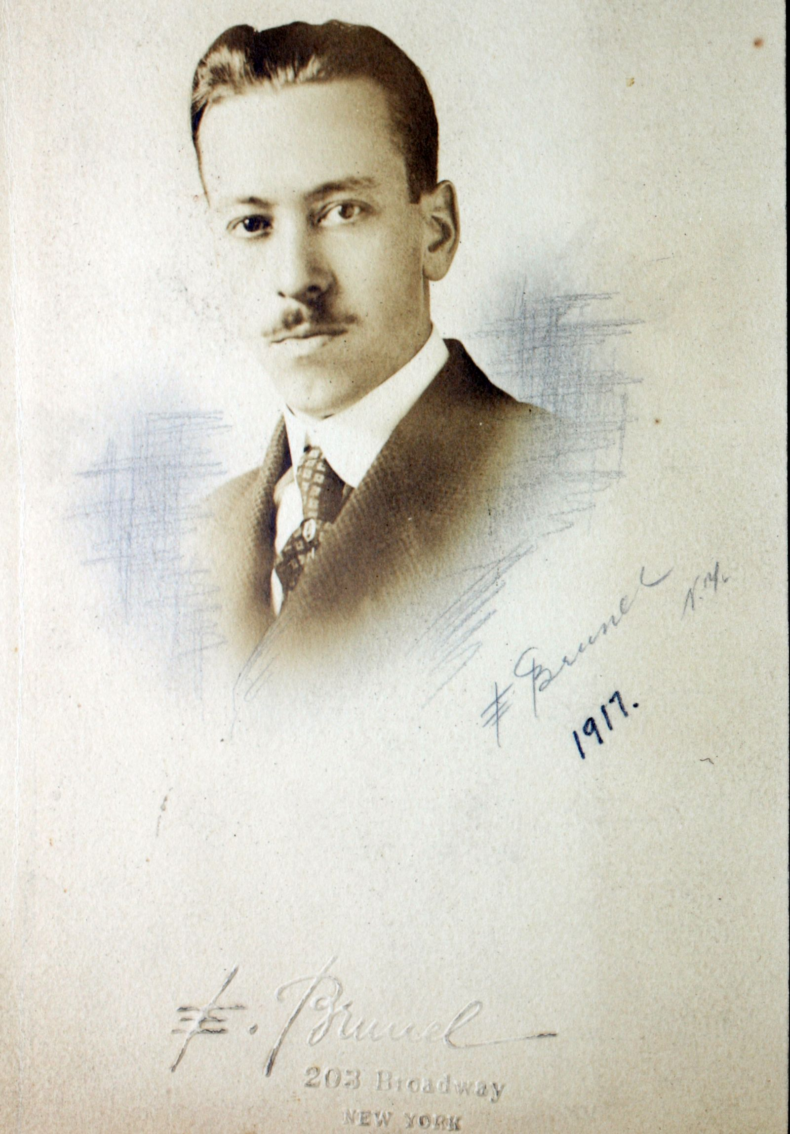 From an Album (AL17) on the life of Warren Samuel Eaton who was born in South Dakota on June 12, 1891 and moved to Los Angeles as a child. He formed Eaton Brothers Aircraft with his brother Frank and they built several aircraft together. Warren teamed with Lincoln Beachy and barnstormed with him. He also built some of Beachy's airplanes. Later, he assisted Glenn Curtiss with the design of amphibian aircraft. When the U.S. Government established licensing for pilots, Warren Eaton was issued License Number 85. A short time later, at the beginning of WWI, Warren was employed by the U.S. Army Air Service at what is now Wright Patterson Air Force Base. After the war, he went to work for Universal Pictures and developed miniatures to be used in movies. He built a set of San Francisco which was used to depict the destruction of the city during the 1906 Earthquake. He also constructed a copy of the Notre Dame Cathedral used in the “Hunchback of Notre Dame” movie.Repository: San Diego Air and Space Museum Archive